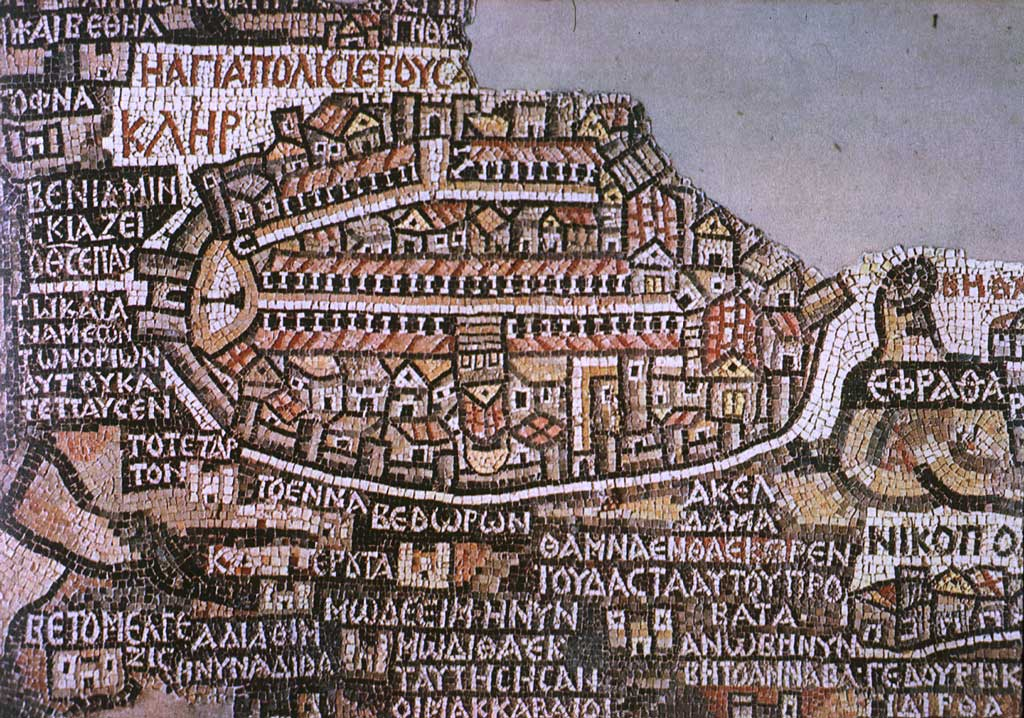 Jerusalem as seen on the Madaba Map